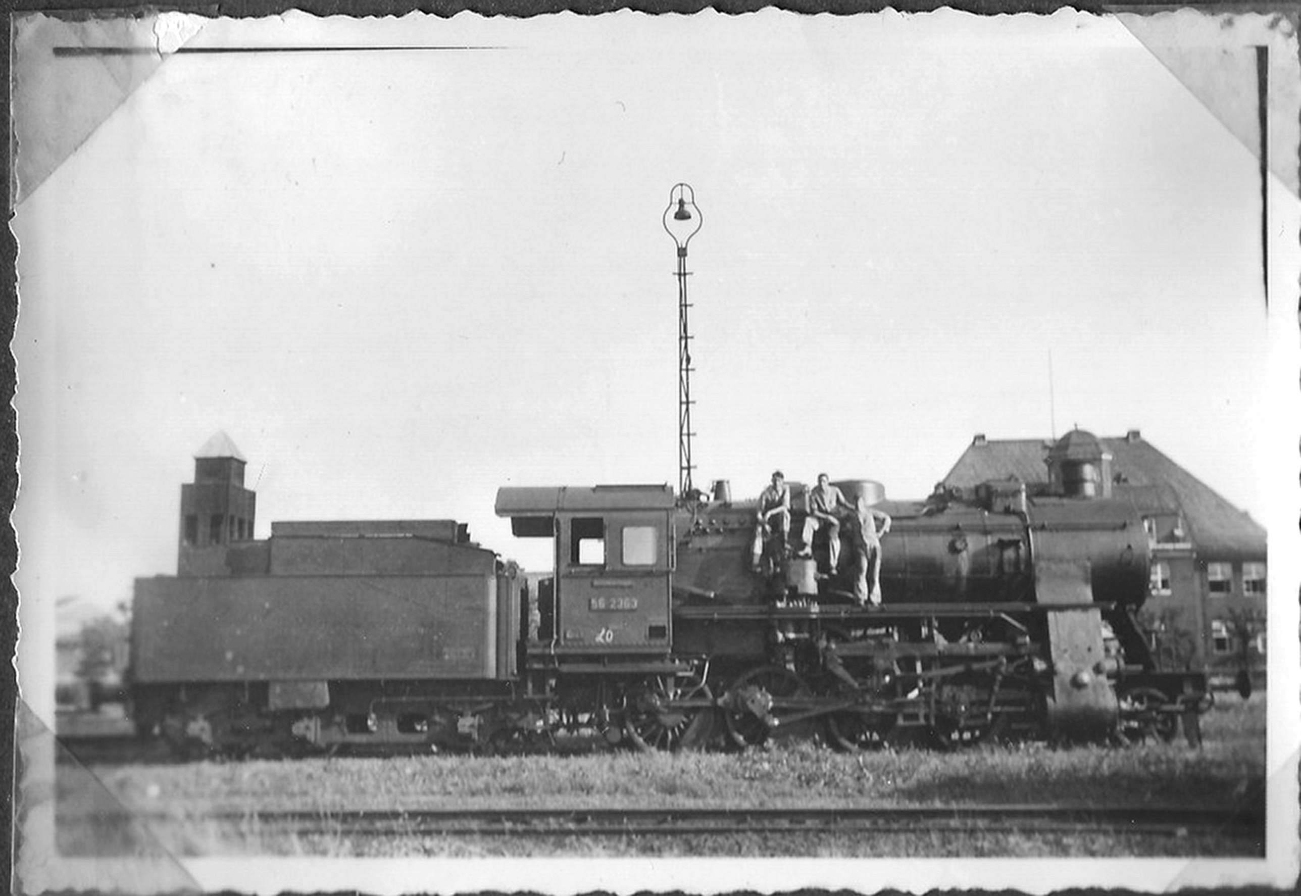 DRG steam locomotive 56 2363 at main railway workshop RAW Frankfurt-Nied.